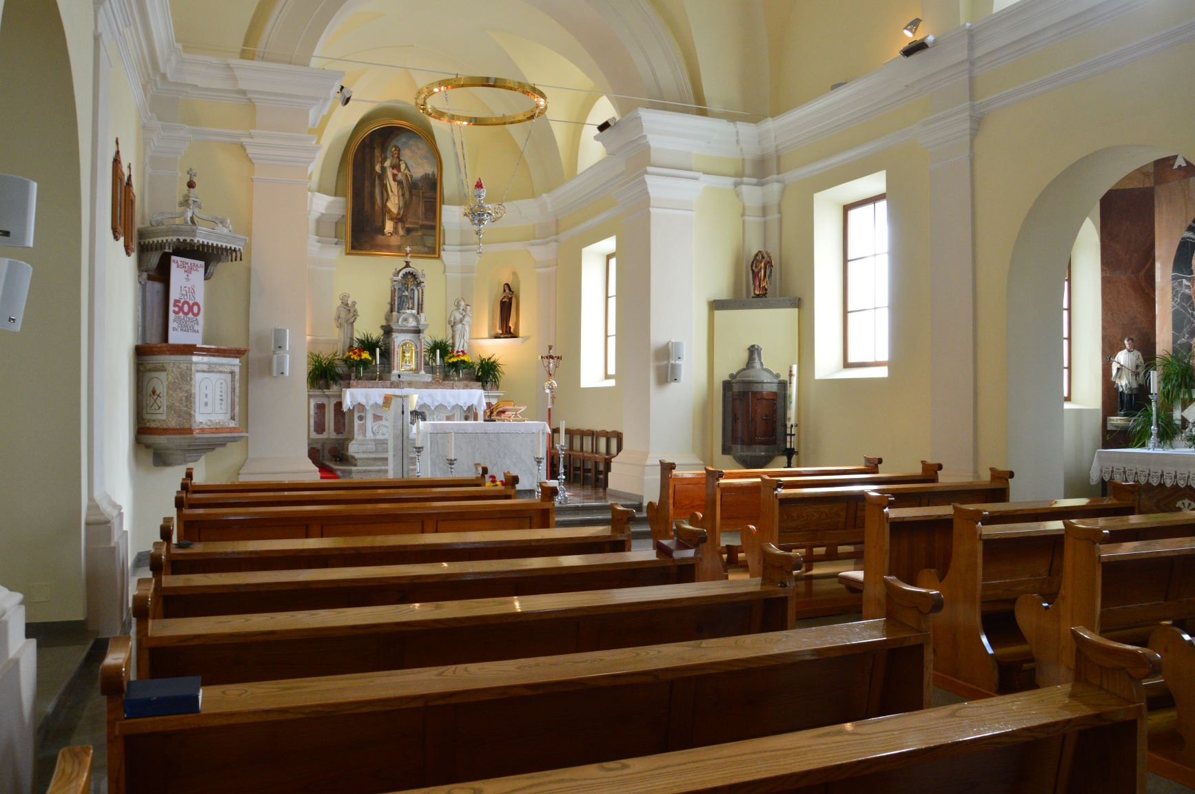 Osek (Slovenia, Vipava valley), st. Martin church interior